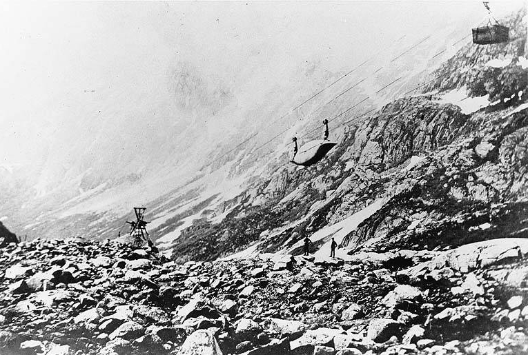 Title:Aerial tram carrying freight including a canoe, Chilkoot Pass, Alaska, ca. 1898. Notes:Possibly of the Dyea-Klondike Transportation Company